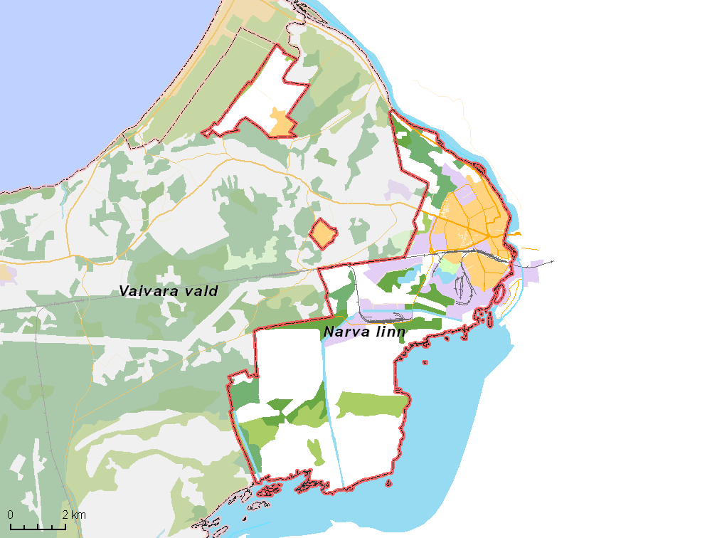 Map of municipality in Estonia